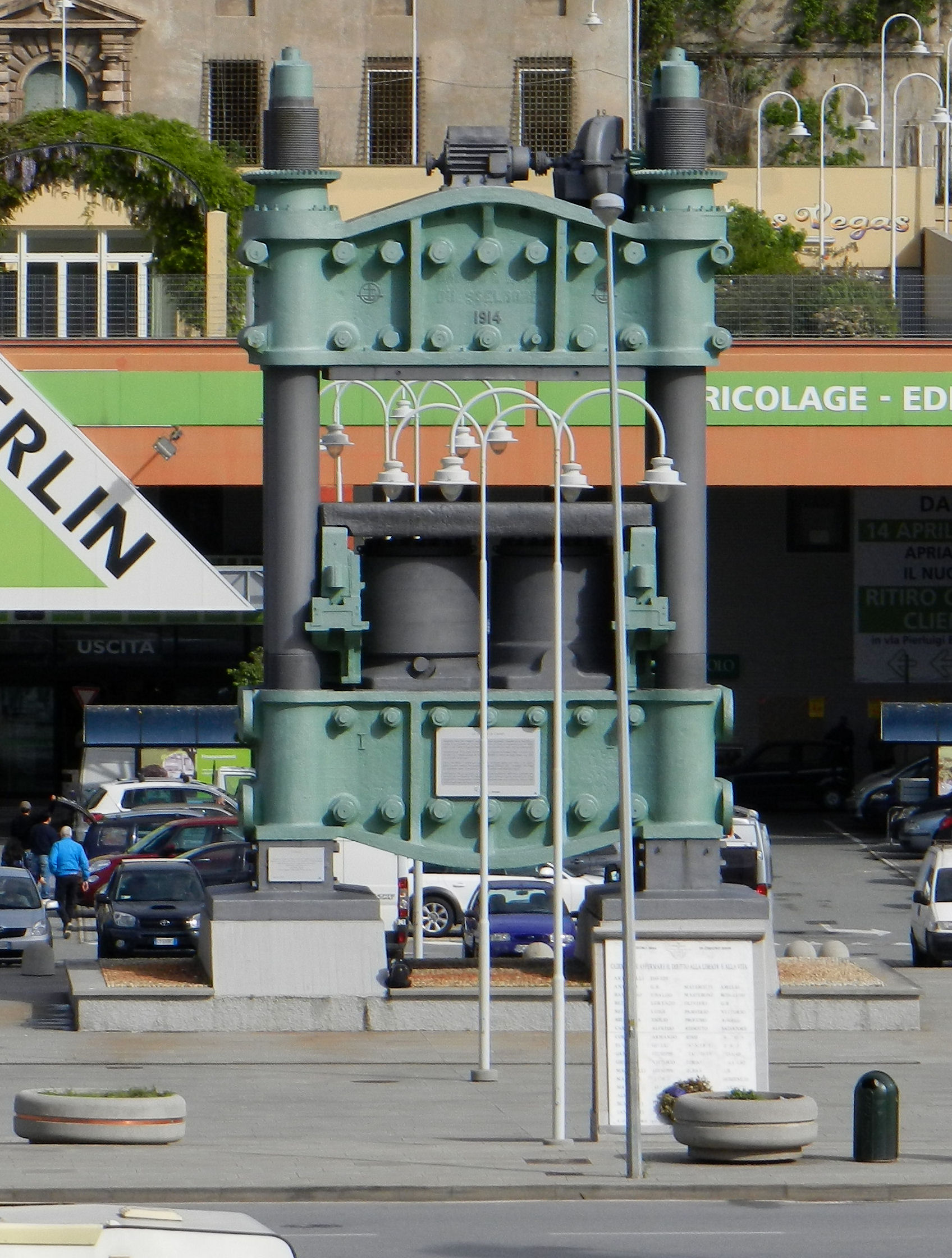 Genoa (Italy), quarter of Campi, the old big hammer of former Ansaldo Foundry